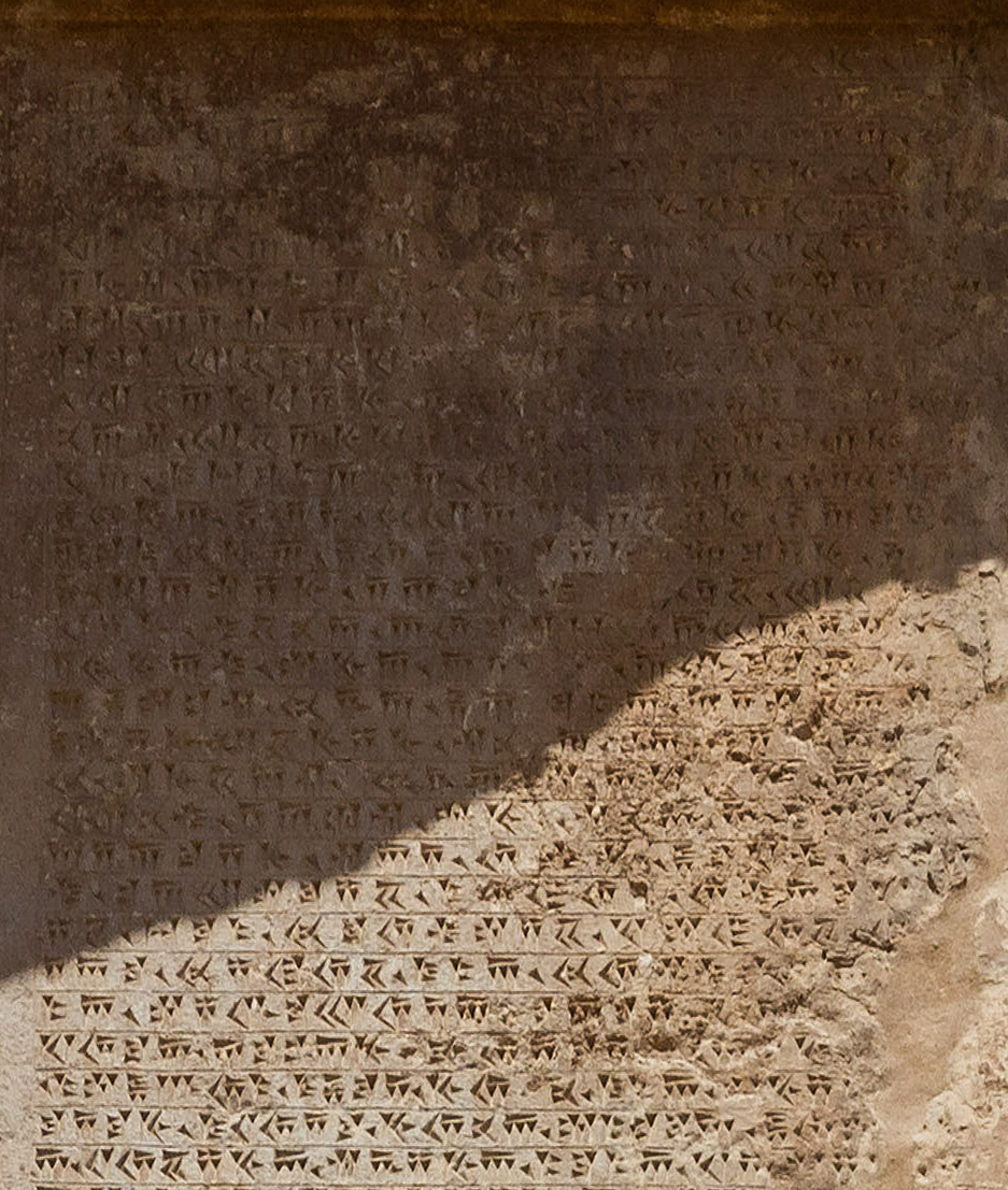 Tomb of Darius I DNa inscription part I